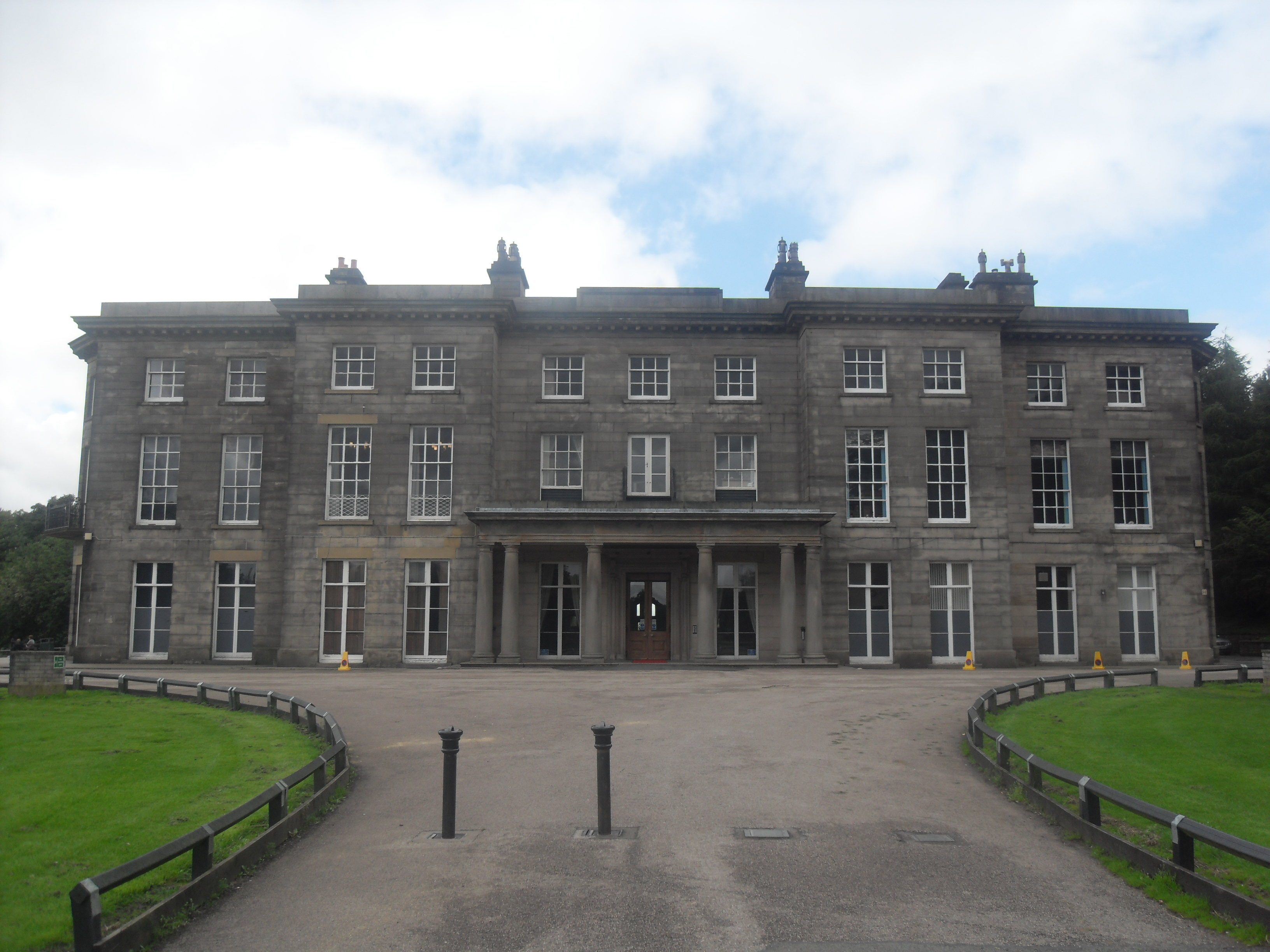 Haigh Hall, near to Haigh, Wigan, Great Britain.